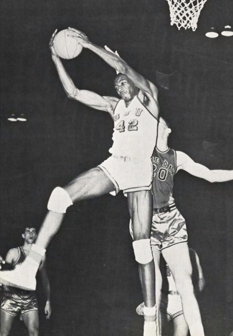 American college basketball player Nate Thurmond of Bowling Green State University in 1963 from the 1963 student yearbook “The Key.”